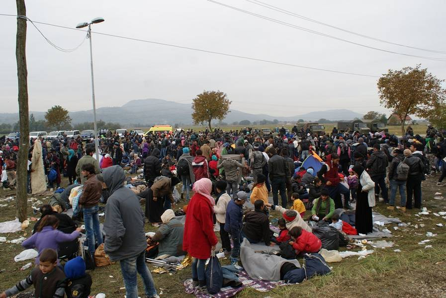 Sodelovanje Slovenske vojske pri podpori Policije - fotoreportaža Rigonce, Dobova, Brežice.